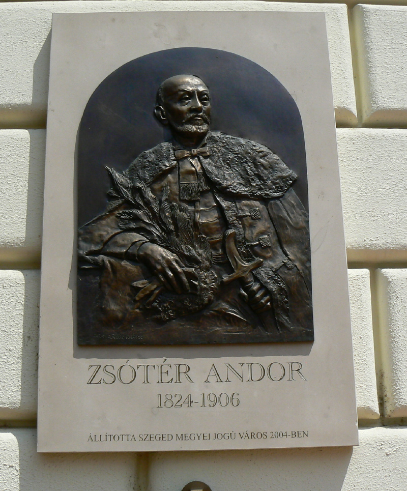 Klára Tóbiás sculptor: Andor Zsótér memorial tablet, 2004